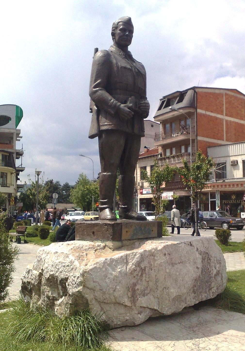 Statue of the People's Hero of Macedonia Čede Filipovski Dame in Gostivar, Republic of Macedonia.